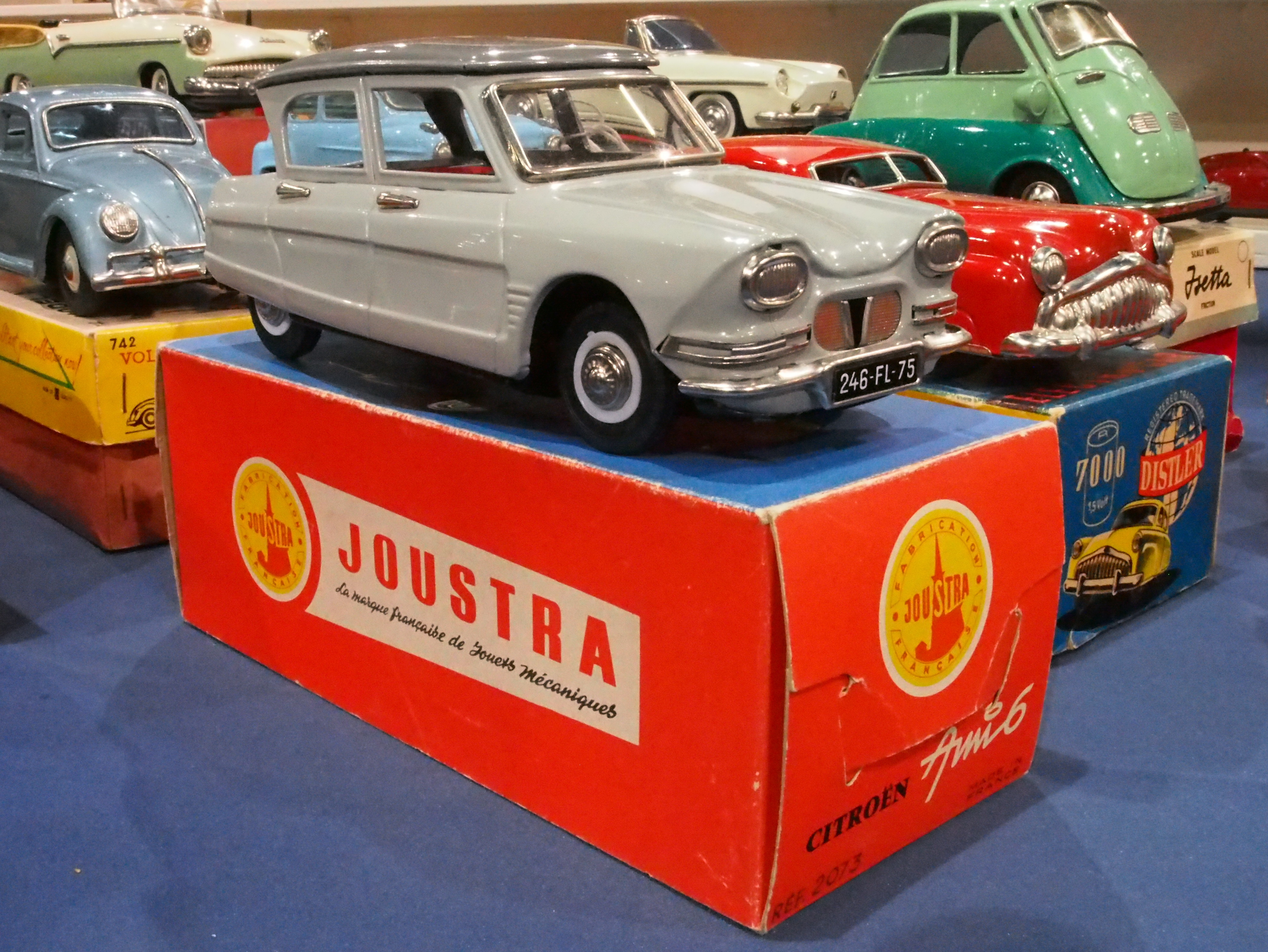 Litho tin toy Citroën Ami 6, Joustra